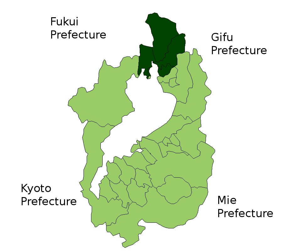 Location Map of Ika District in Shiga Prefecture, Japan